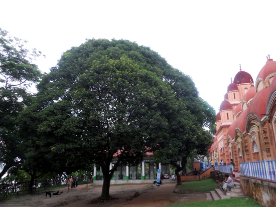 A Banyan tree in front of Kalibari.